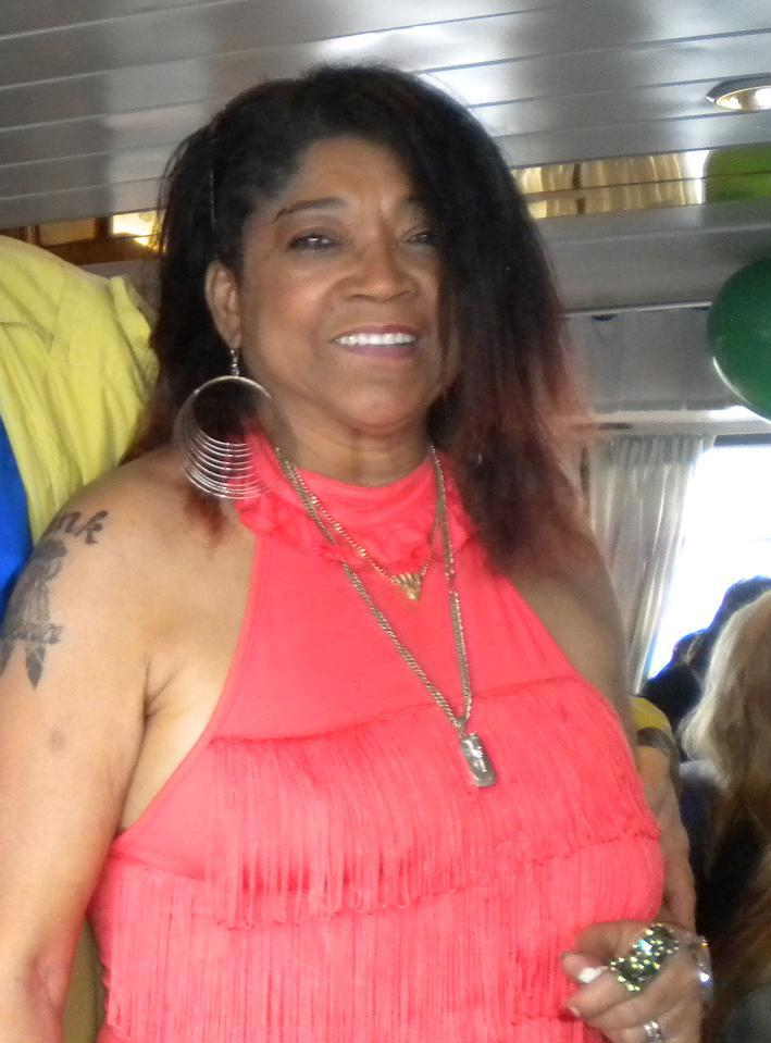 Lotta HedlundPlace: Aboard M/S Sunnan at sea off Värmdö, Sweden